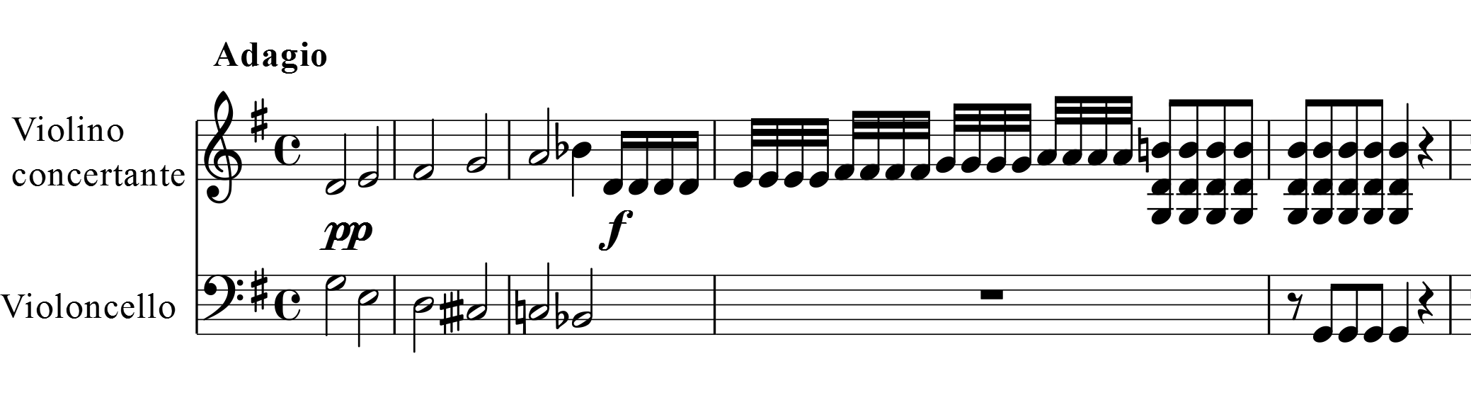 Joseph Haydn, Symphony No. 6, second movement, bar 1-5